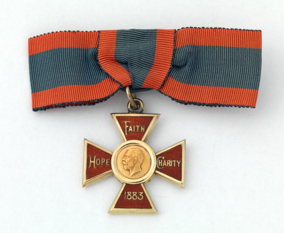 Royal Red Cross 1st Class (RRC) Medal awarded to 22-12 Matron Cora B Anderson, NZANS, WW1 golden cross, 35 mm width, plain ring suspension, with ribbon Obverse- enamelled red, with broad silver edges around the enamel; a circular medallion bearing effigy of King George V. The words "Faith", "Hope" and "Charity" are inscribed on the upper limbs of the cross, with the year "1883" in the lower limb. Reverse- plain except a circular medallion bearing the Royal Cypher of the George V ribbon- 28mm wide grosgrain, dark blue with crimson edge stripes